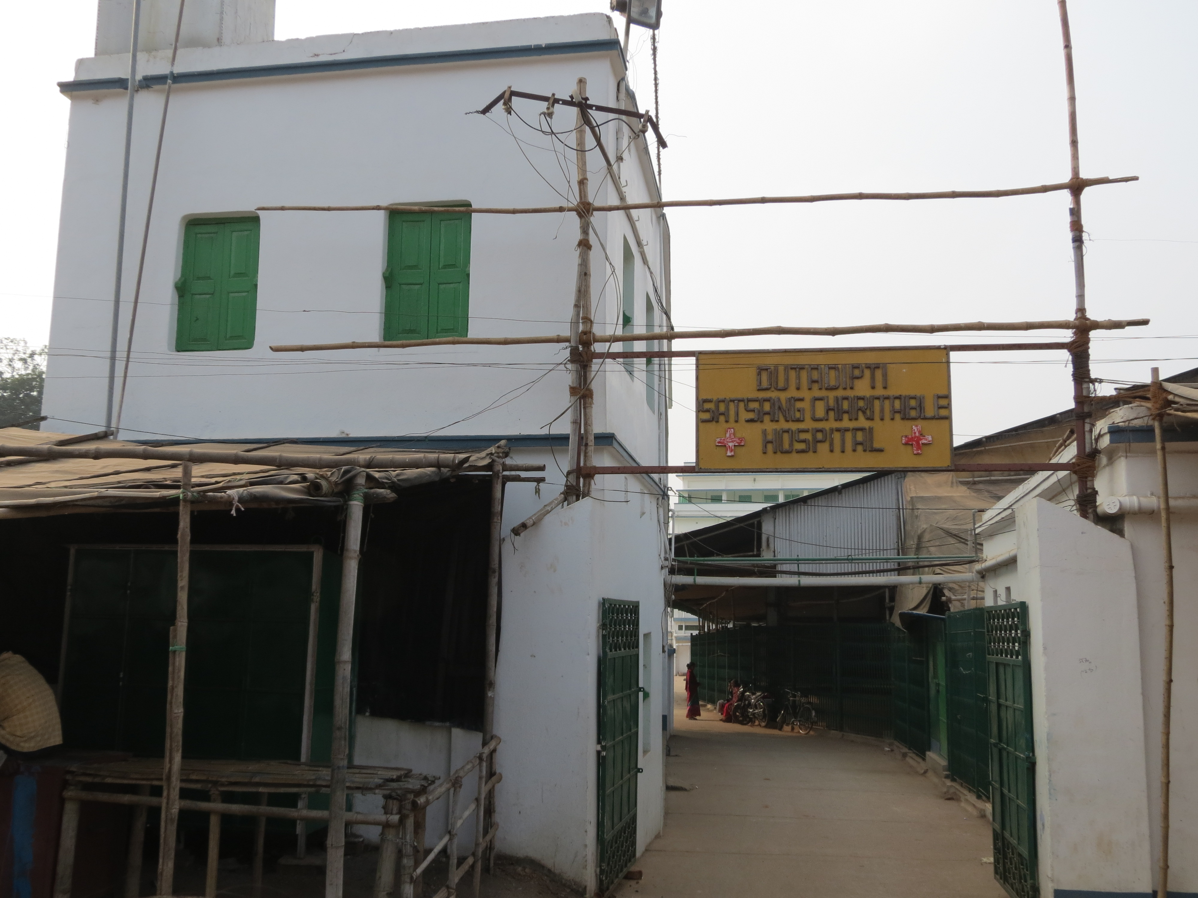 Dutadipti Satsang Charitable Hospital, Deoghar